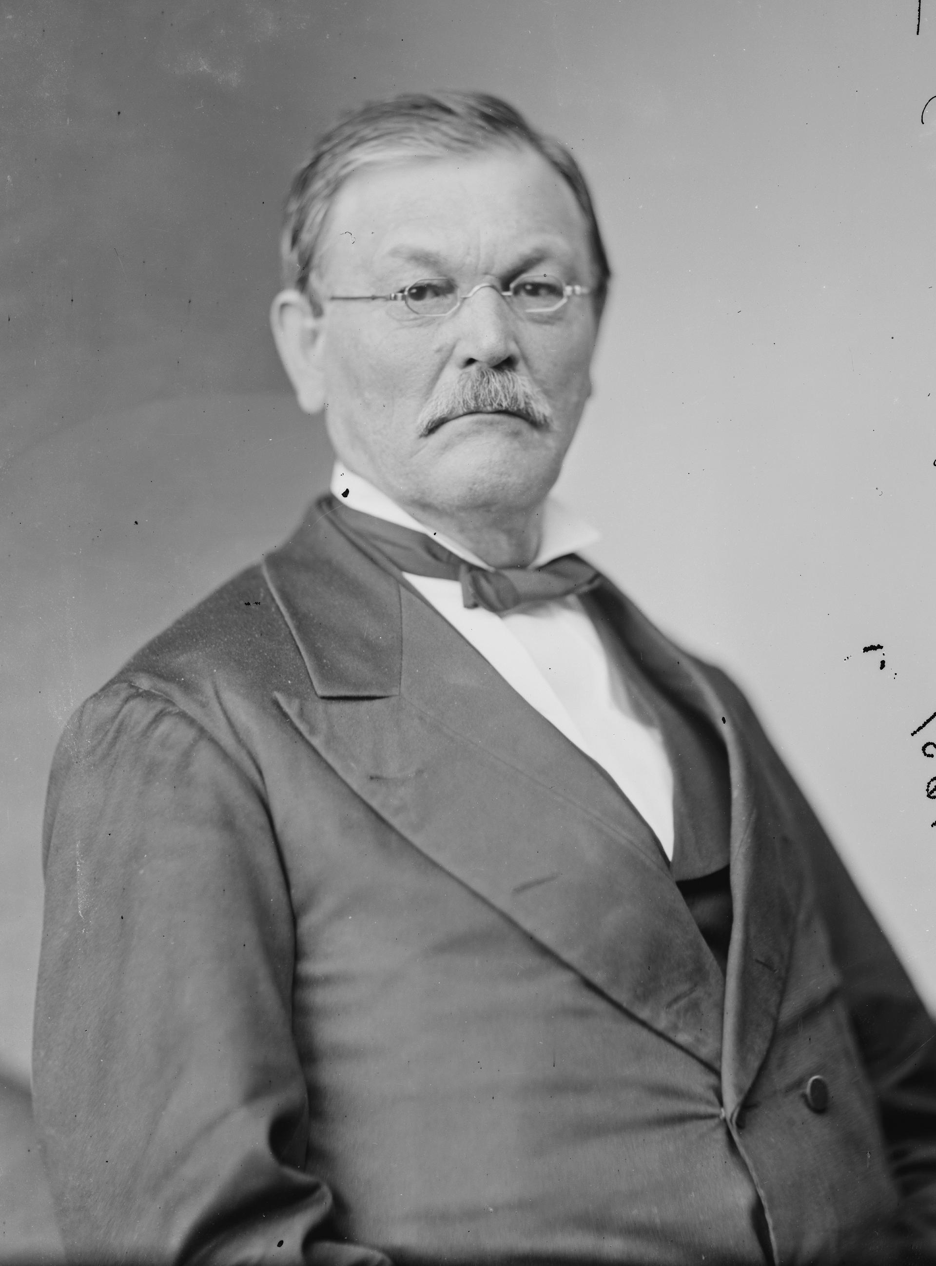 James K. Kelly. Library of Congress description: "Kelly, Hon. Sen. James Kerr of Oregon".